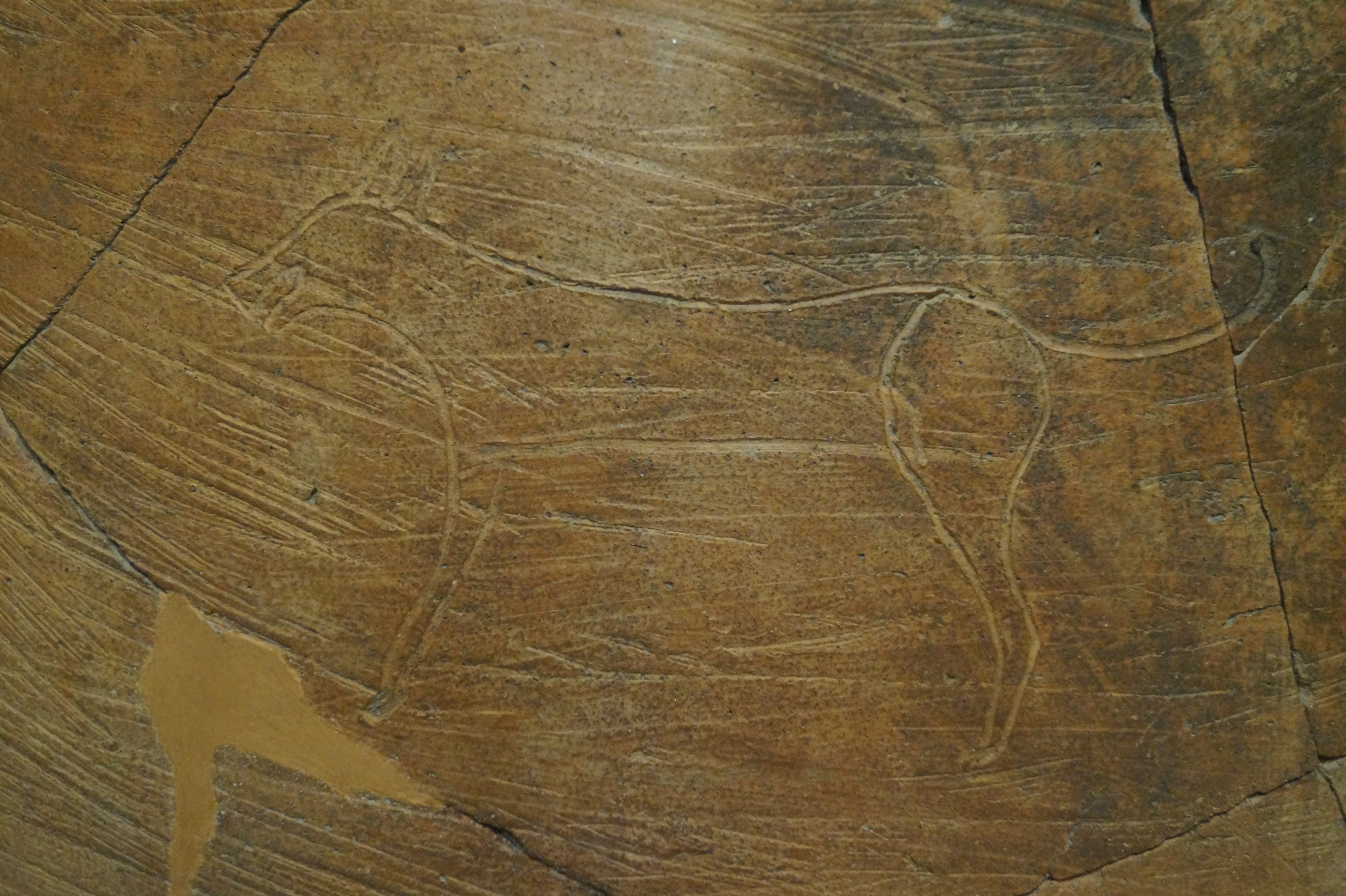 National Archaeological Museum of Athens: Large storage jar with representation of a dog from the archaeological site of Askitario. Early Bronze Age (EH II, 2500-2100 BC) (NAMA 8902)